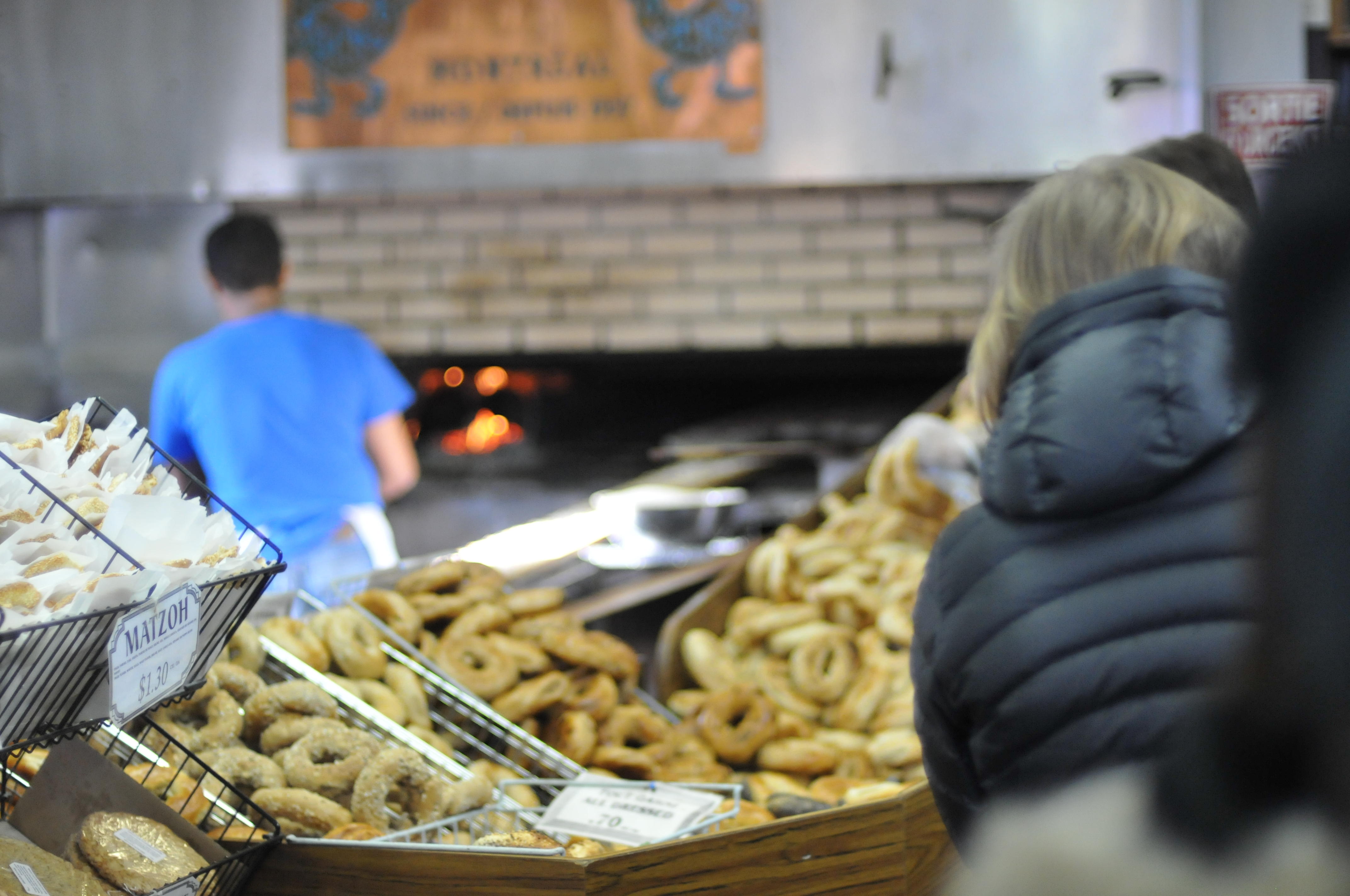 The saturday morning bagel queue, Rue St-Viateur, Montreal, Quebec, Canada. The title of this work at its source is: The Saturday Bagel Queue, Montreal (St-Viateur).